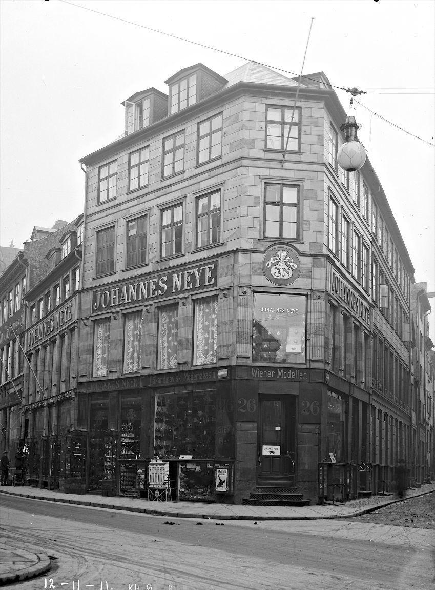 Johannes Neye at the corner of Vimmelskaftet in Kæosterstræde in Copenhagen, Denmark